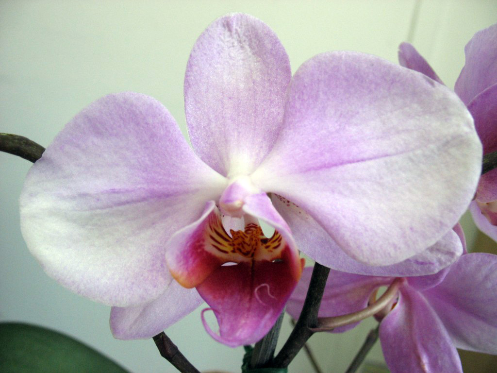 unknown type of Phalaenopsis hybrid